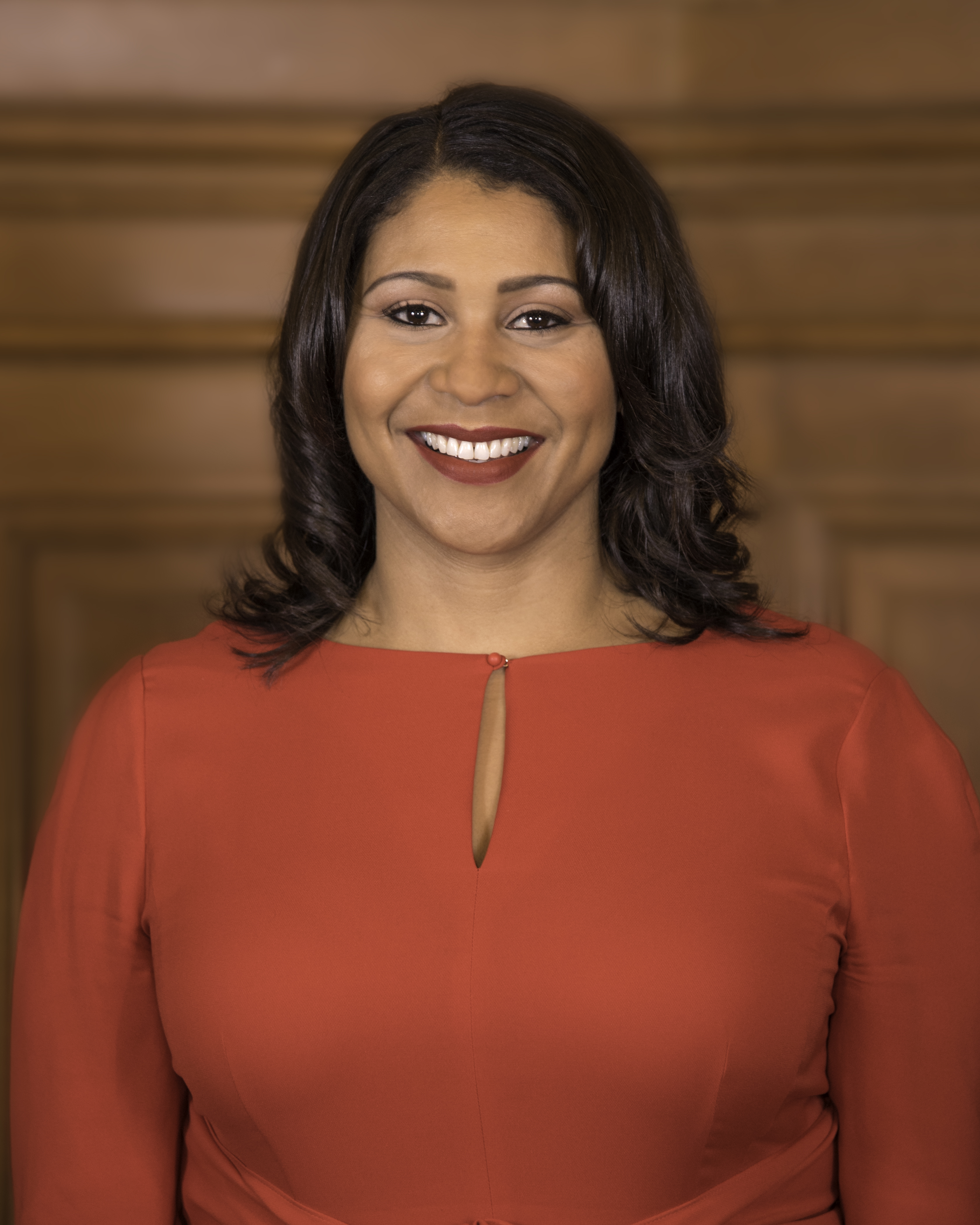 Official portrait of London Breed, Board of Supervisors Member District 5